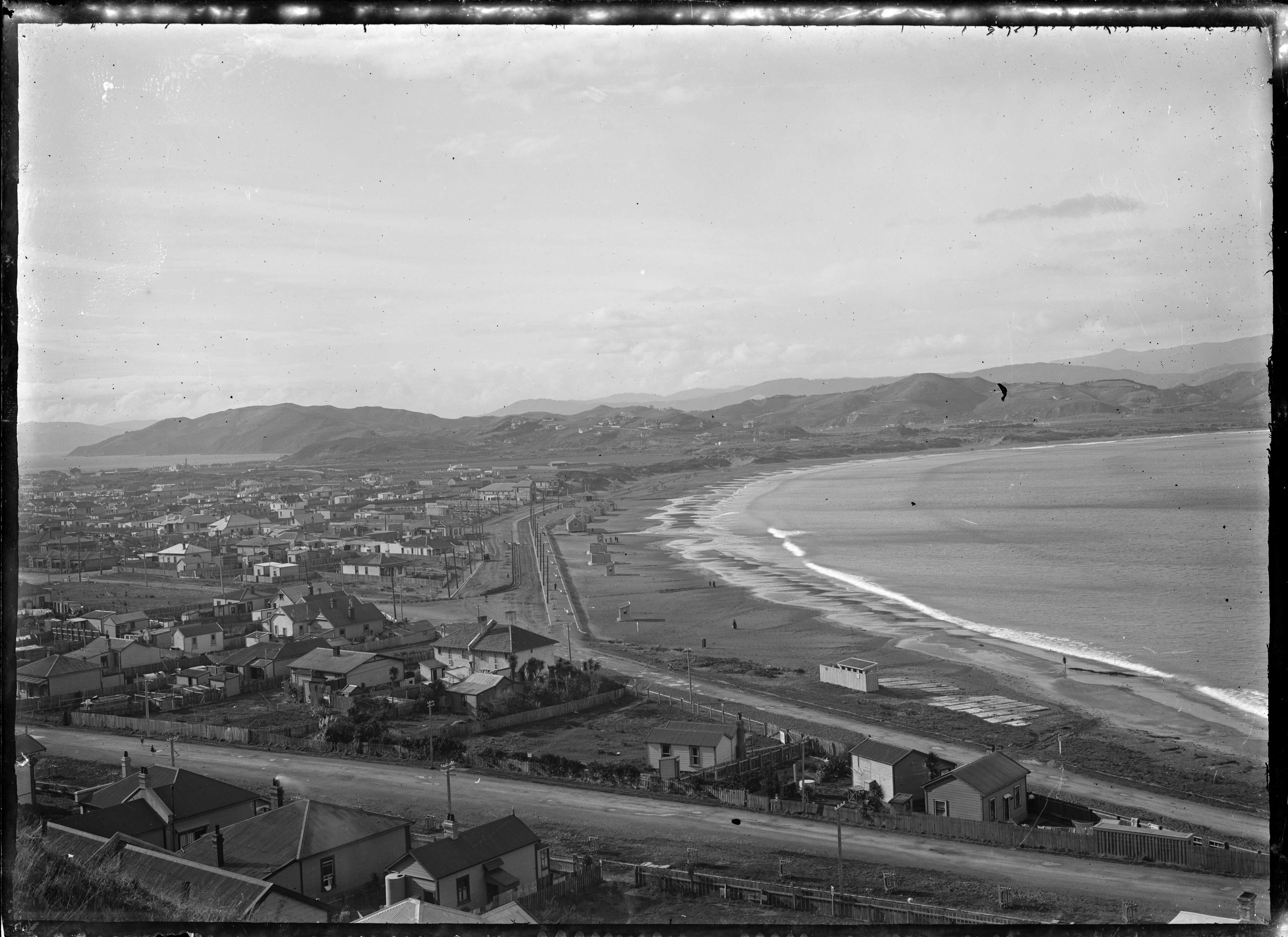 View overlooking Lyall Bay. Photograph taken by Albert Percy Godber.